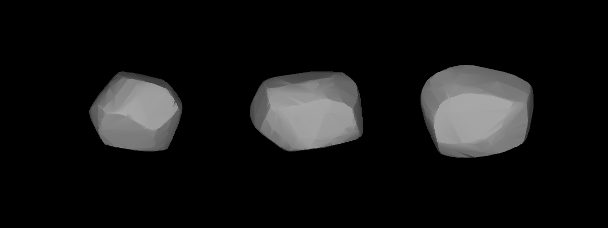 A three-dimensional model of 258 Tyche that was computed using light curve inversion techniques.